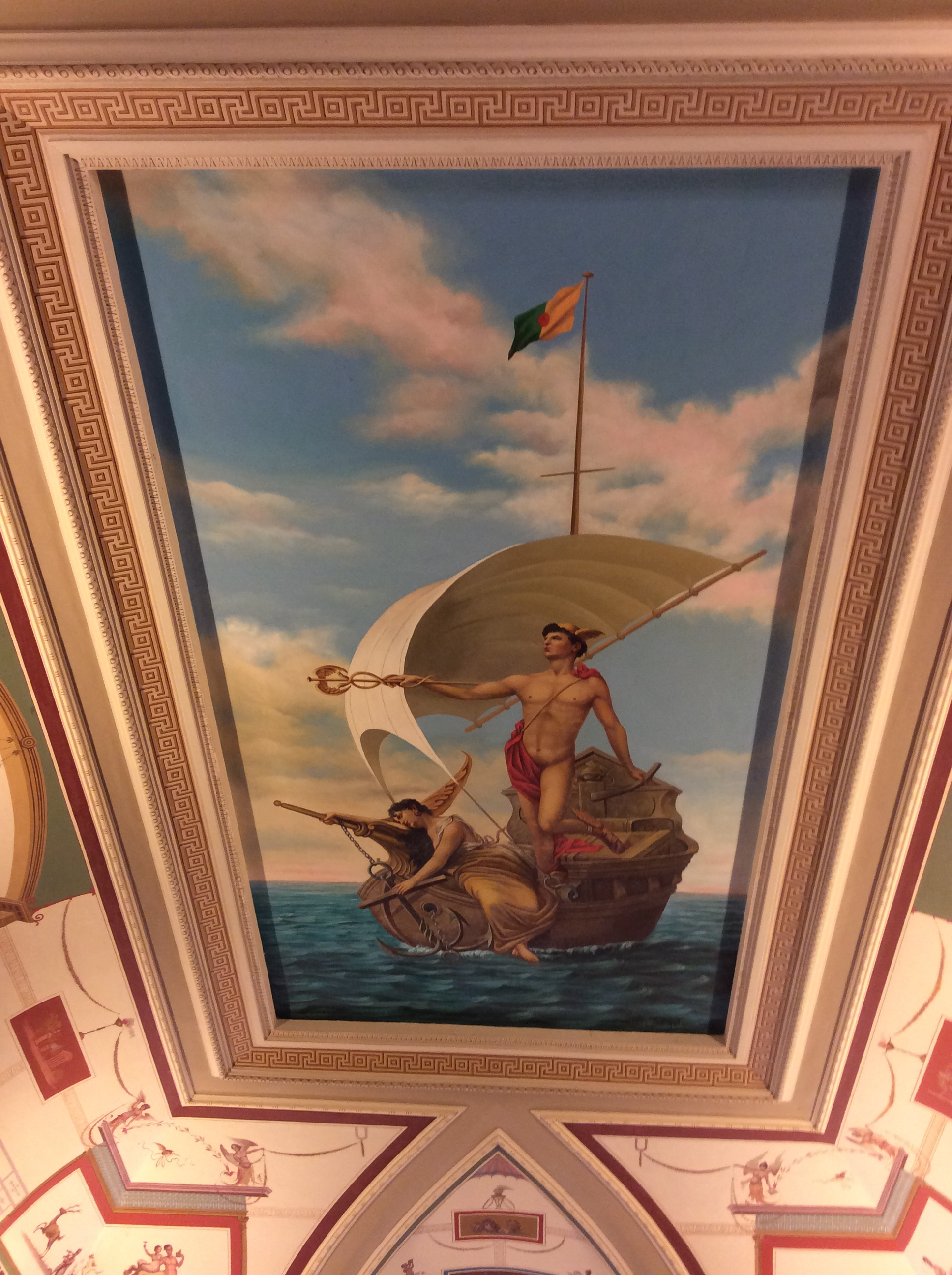 Pompeian paintings at Palazzo Parisio, Naxxar, Malta